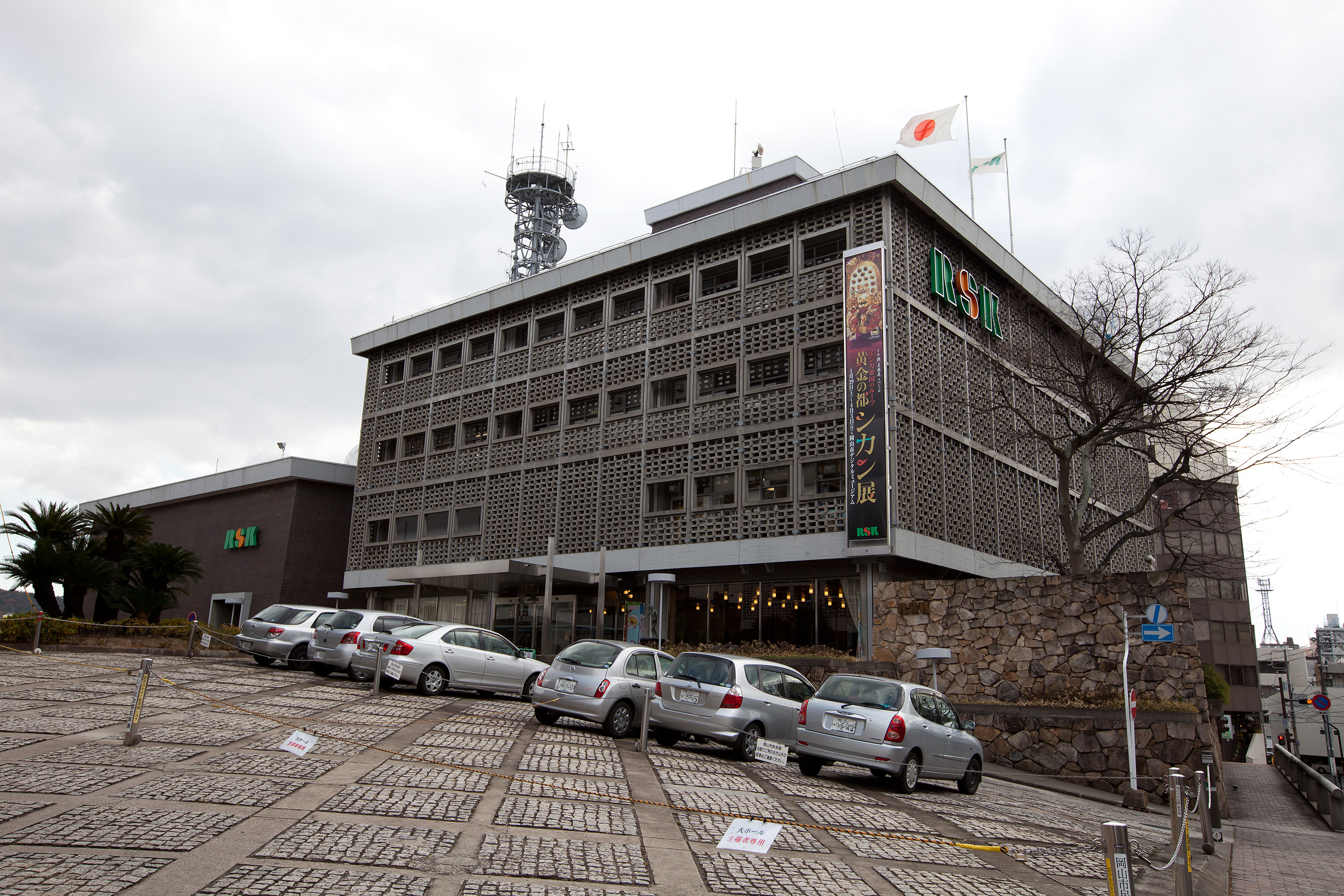 RSK office building